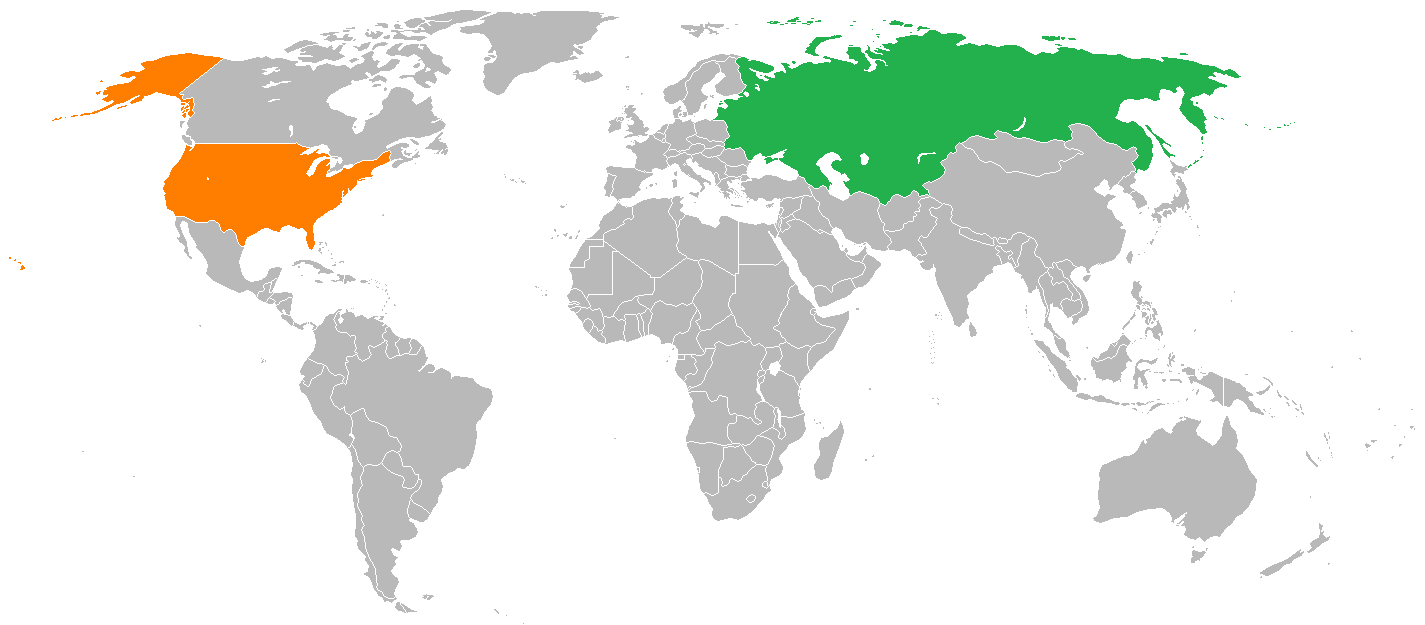 A circa 1990 map of the world showing the location of the Union of Soviet Socialist Republics and the United States of America.